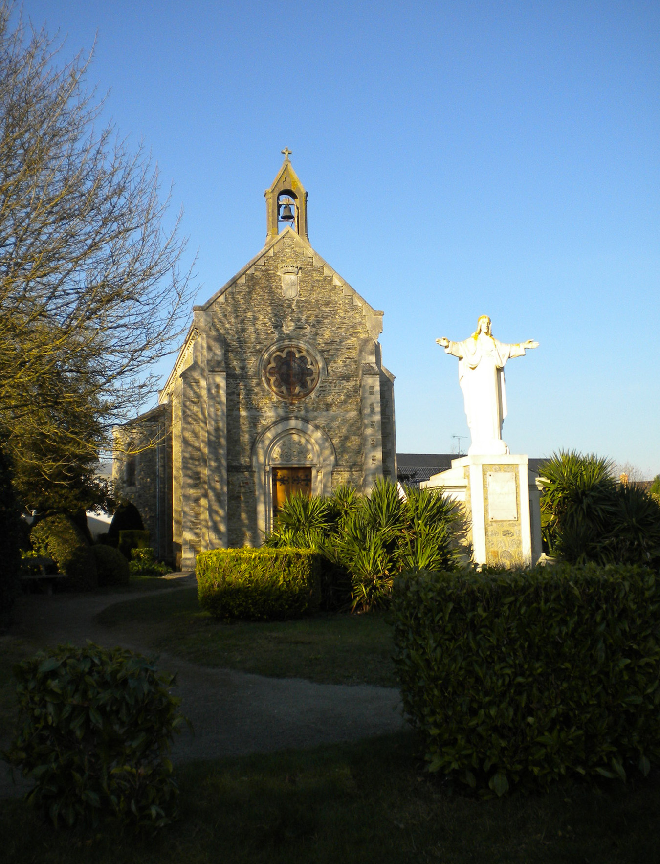 The Chapel of Victoire Brielle, the Saint of Méral, France.